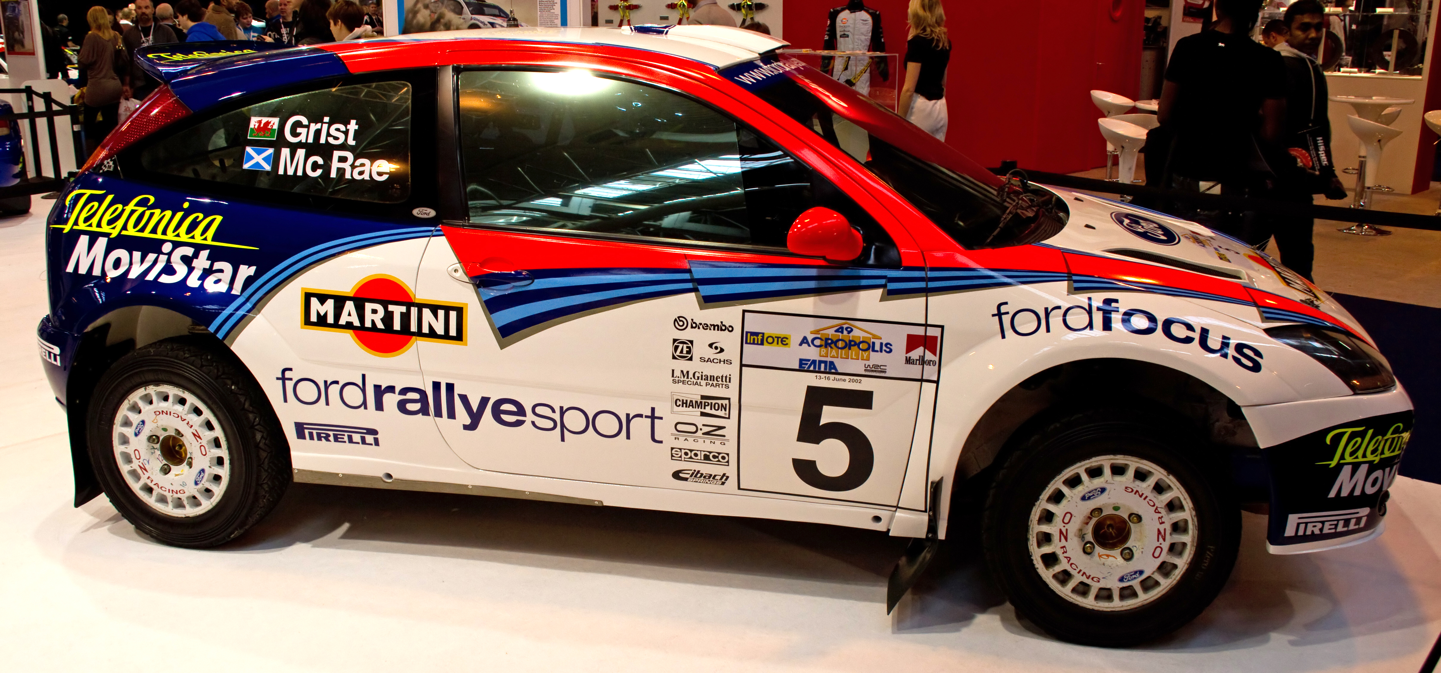 McRae Ford Focus